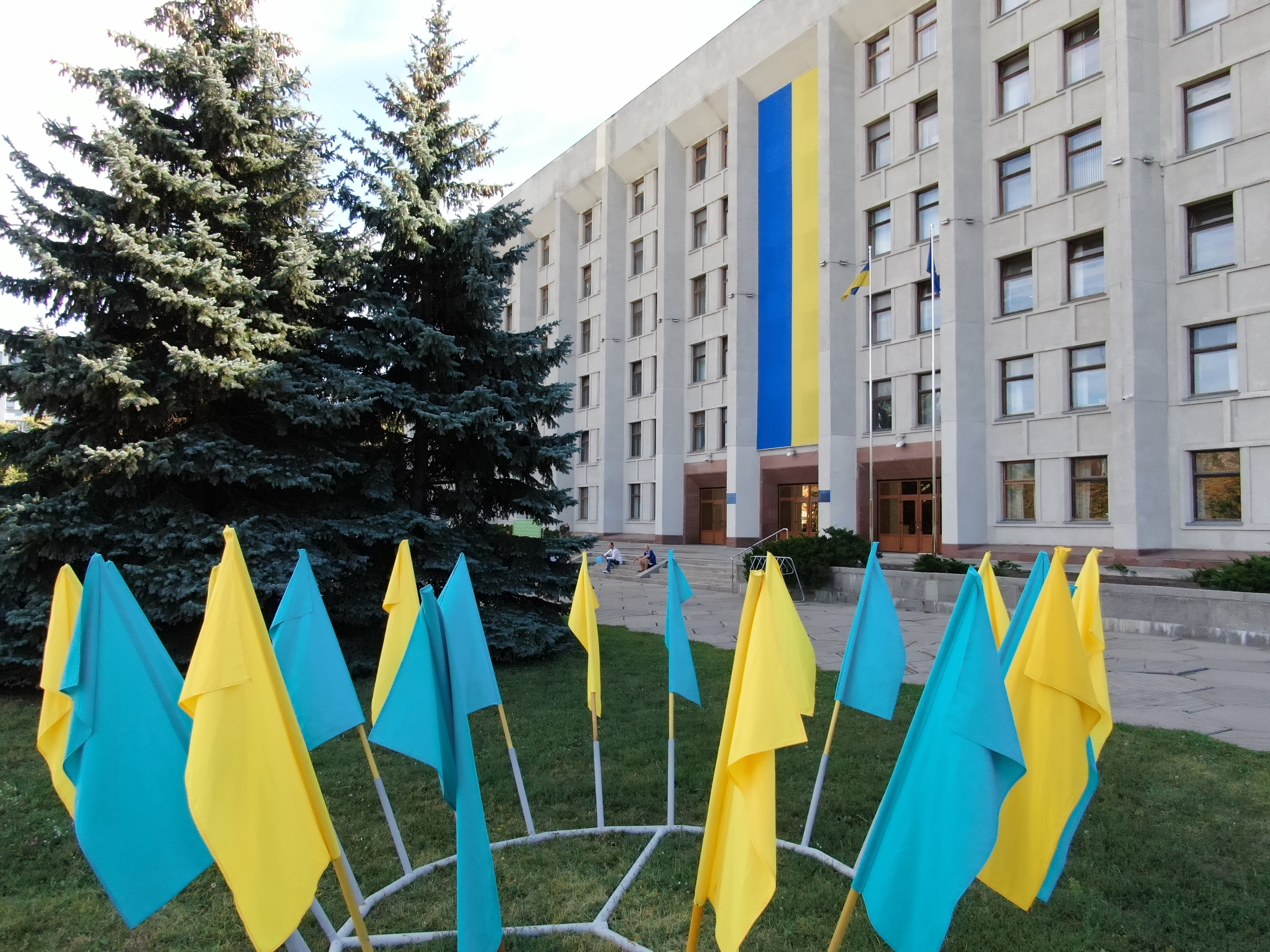 Poltava Regional State Administration building